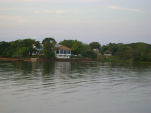 Cienaga de Ayapel